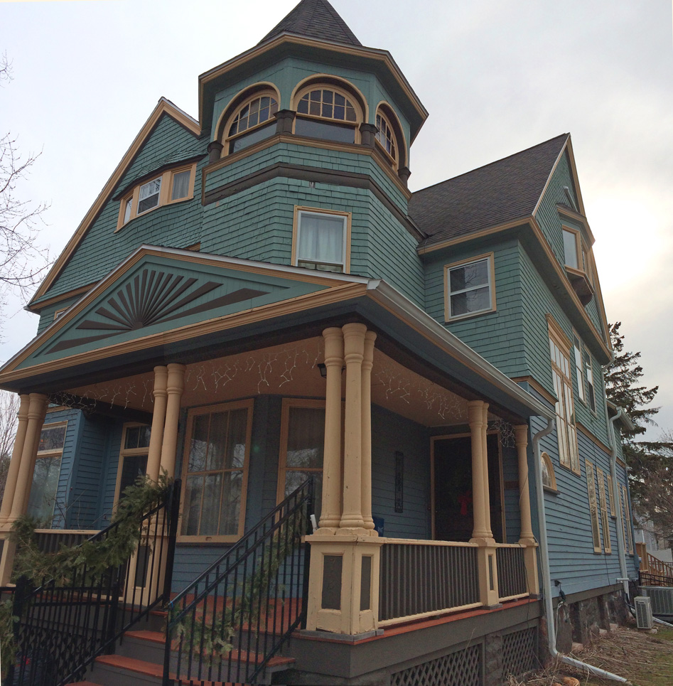 Street view photo of 723 Chapple Avenue in Ashland, Wisconsin. This Victorian mansion was built by Wisconsin senator C.A. Lamoreux in 1891.